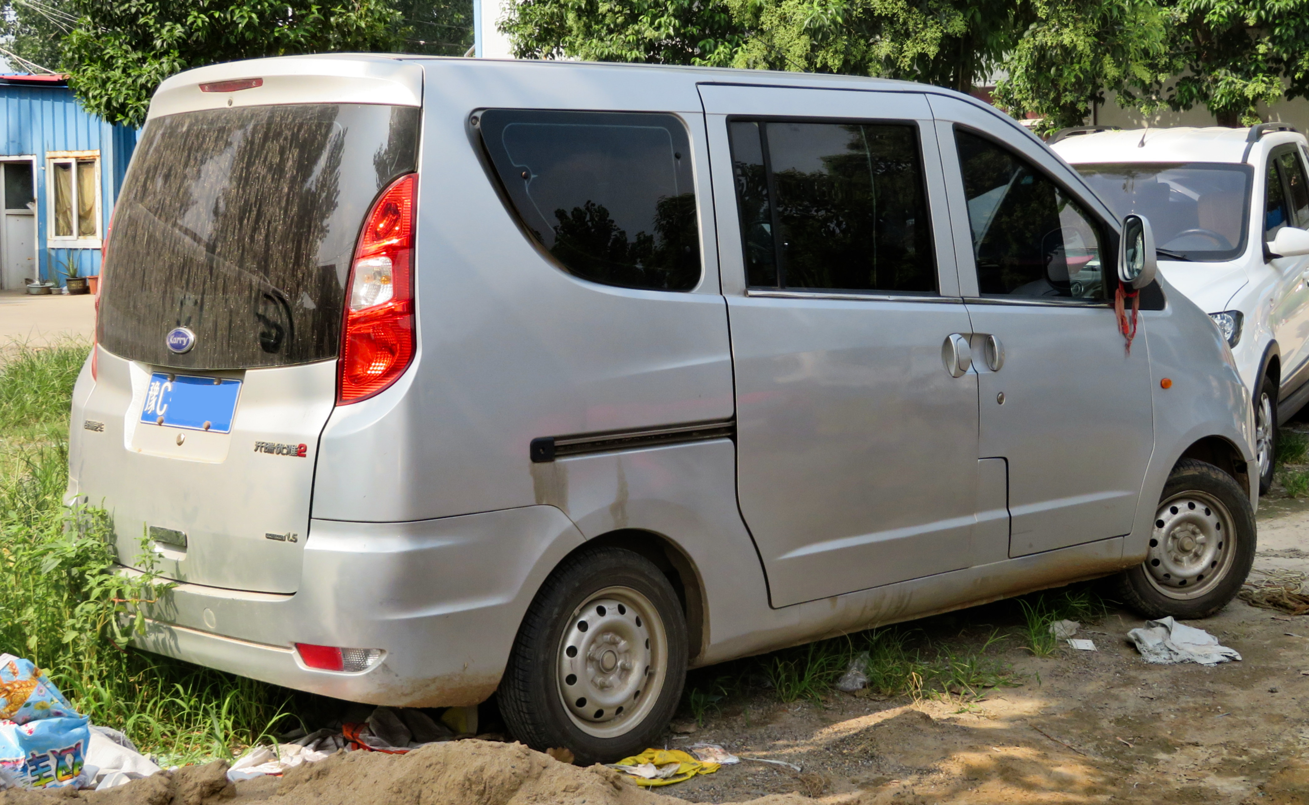 A 2014 Chery Karry Youya II photographed at Guanlinzhen, in Luoyang, Henan province, China